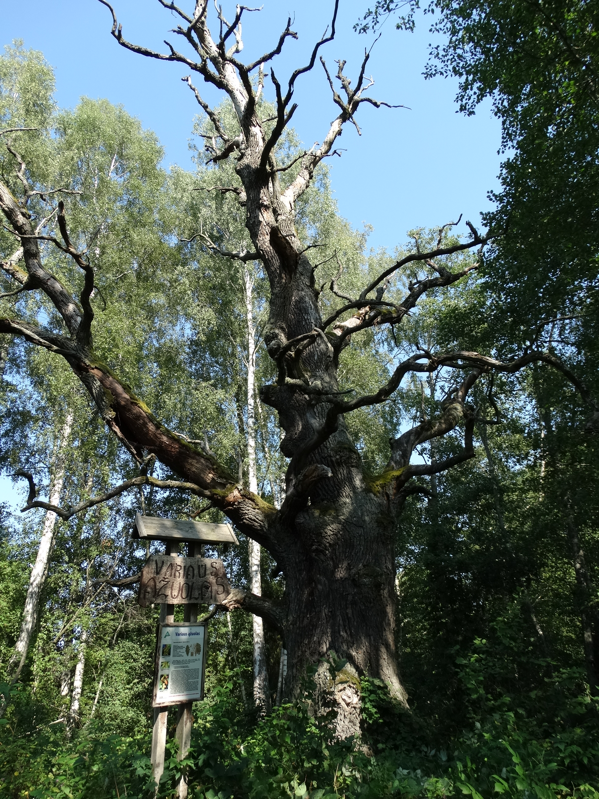 Varius Oak, Anykščiai District, Lithuania